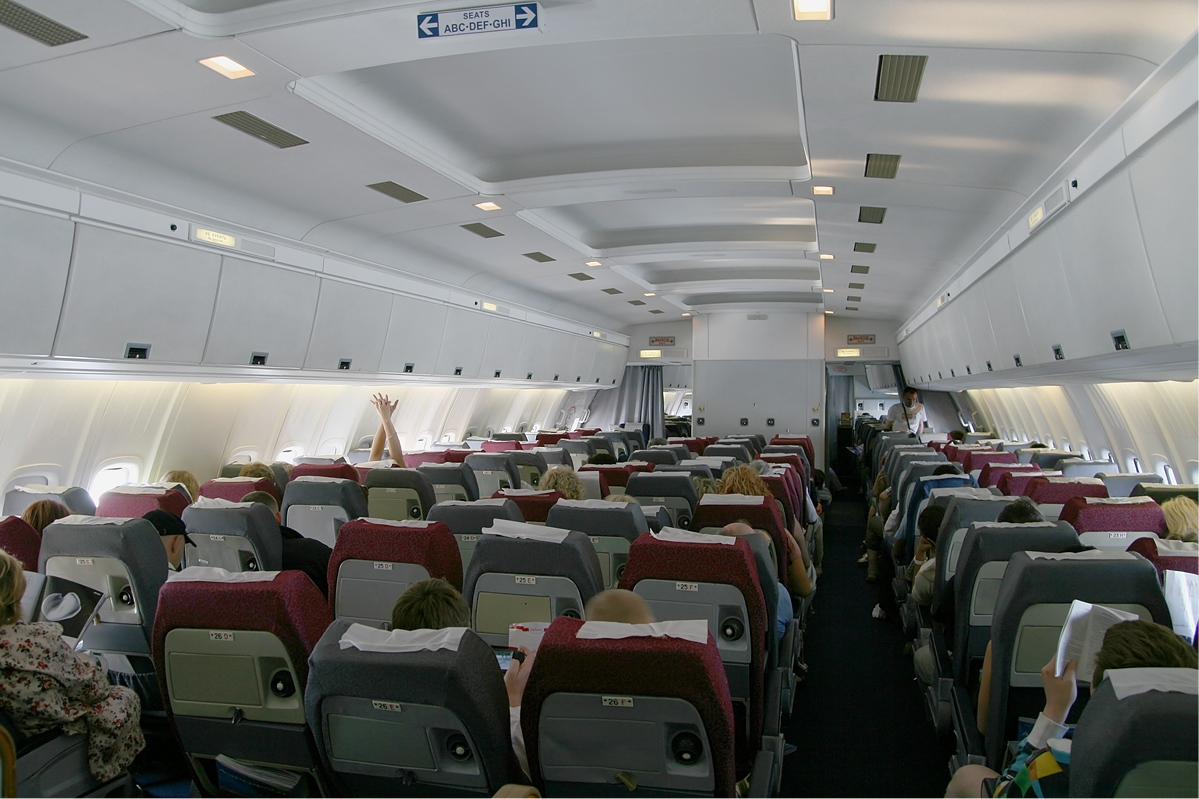 Aeroflot-Don Ilyushin Il-86 passenger cabin